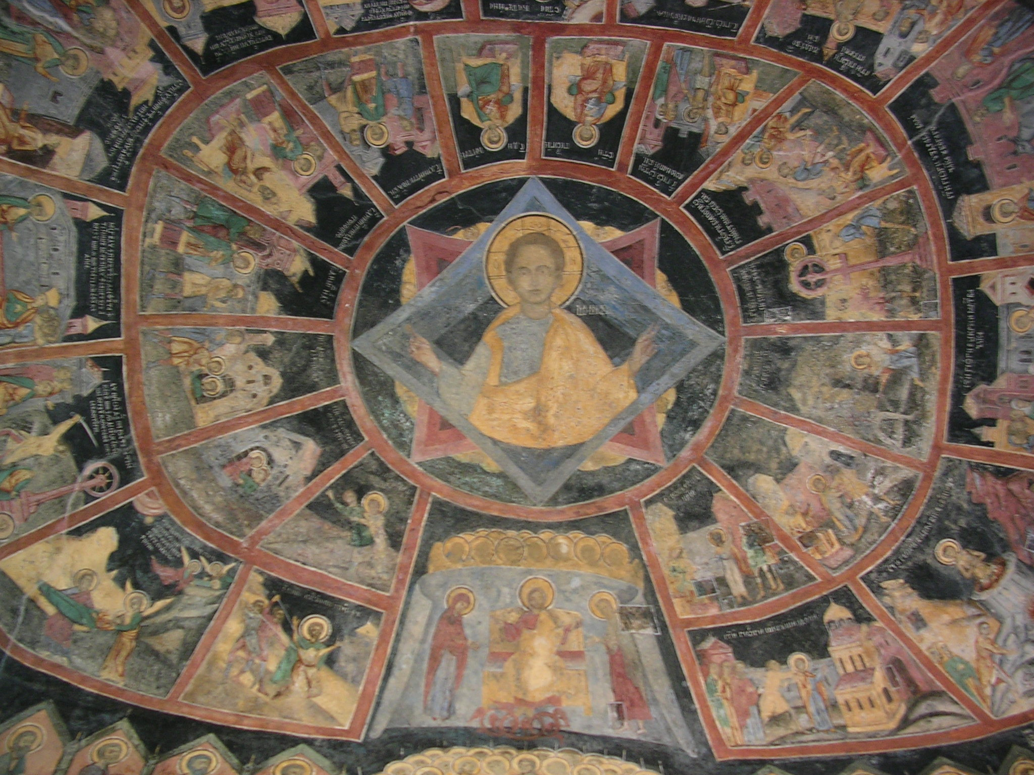 Monastery Sinaia (old church painting)